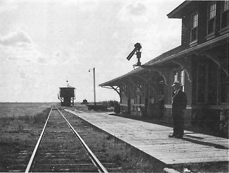 Canadian National Railways station in Eatonia, Saskatchewan. Water tank and section house in background.